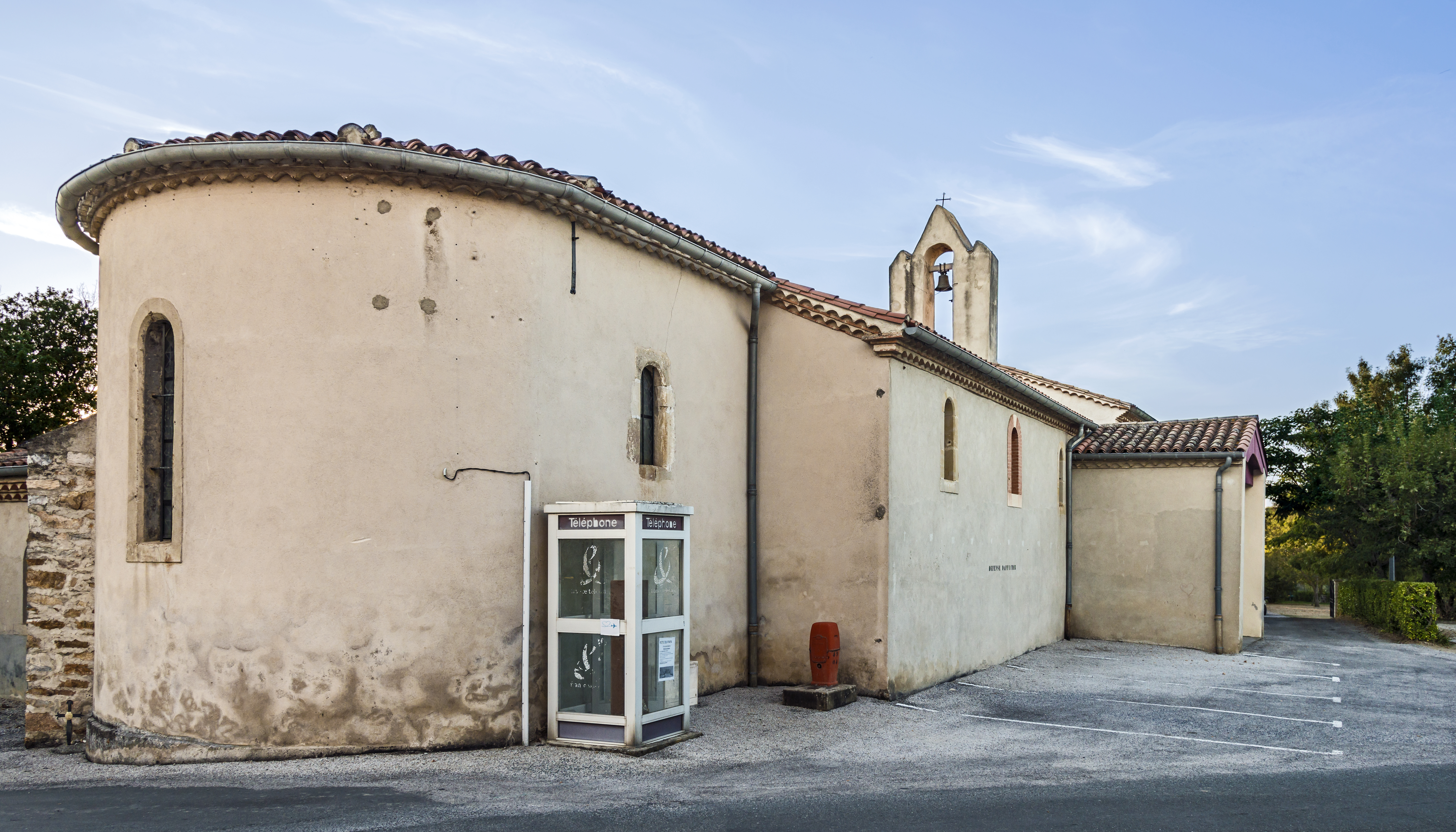 Cahuzac, Tarn, France - Church Saint Vincent